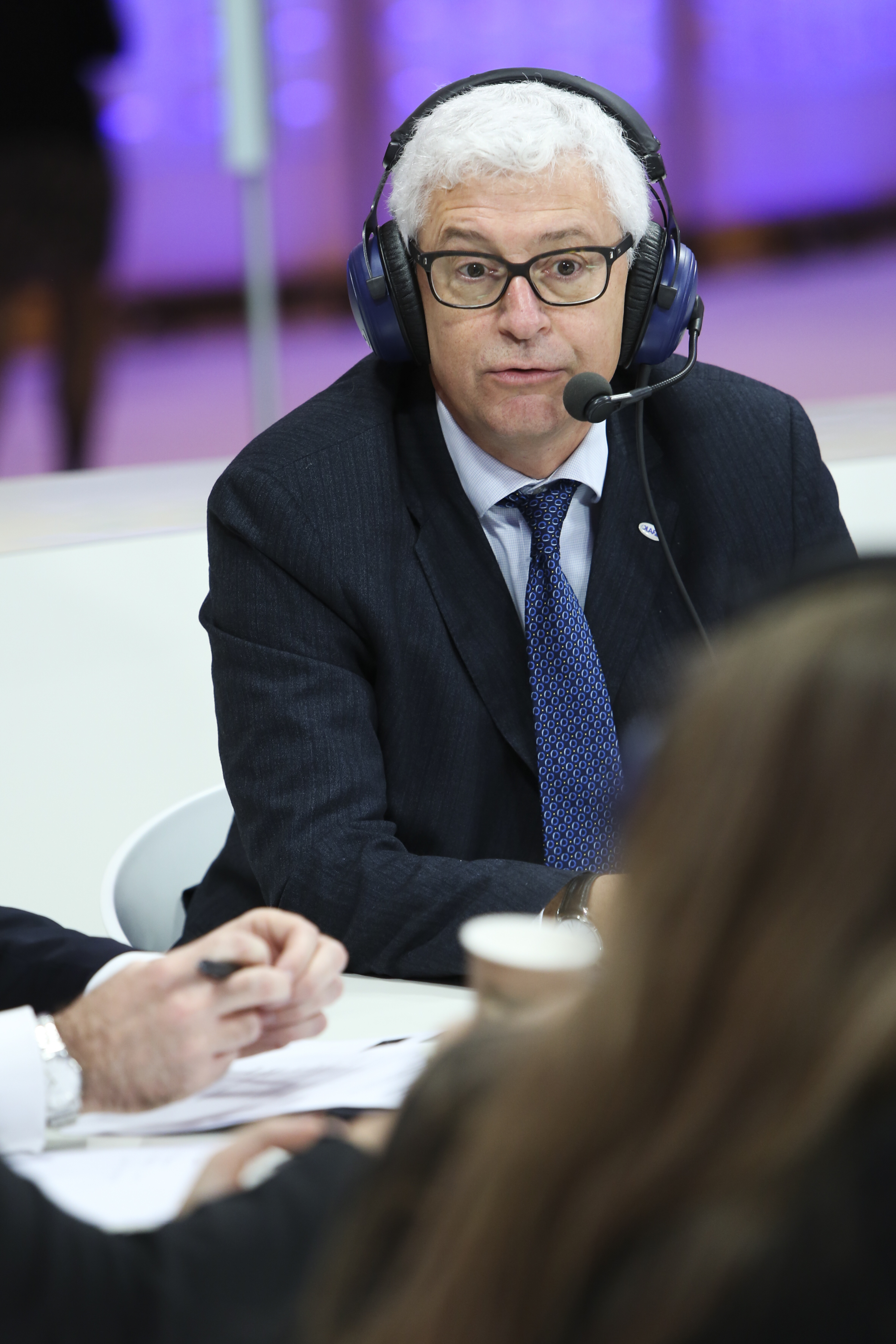 Euranet Plus, the leading radio network for EU news, hosted a Citizens’ Corner live debate on fighting corruption in the EU at the European Parliament in Brussels on December 2, 2014. The debate was jointly produced by Euranet Plus and Skaï Radio, Greece, member of the Euranet Plus network, and was moderated by journalist Stavros Samouilidis from Skaï Radio (in Greek) and Brian Maguire from the Euranet Plus News Agency in Brussels (in English). The debate also featured students from the Euranet Plus campus radio network. The debate was broadcast live at the top of this web page. You are invited to comment on the debate on our Facebook page event page or on Twitter using the hash tag #CitizensCorner. Part 2 | English | 13h15 – 14h00 CET | moderator Brian Maguire | guests: - Kati PIRI, MEP, Netherlands, Group of the Progressive Alliance of Socialists and Democrats - Eva KAILI, MEP, Greece, Group of the Progressive Alliance of Socialists and Democrats - Georgios KATROUGKALOS, MEP, Greece, Confederal Group of the European United Left - Nordic Green Left - Giovanni KESSLER, Director-General of the European Anti-Fraud Office (OLAF) - Carl DOLAN, Director of the Transparency International European Union Liaison Office Get more details, soundbites and the video recording of the debate at